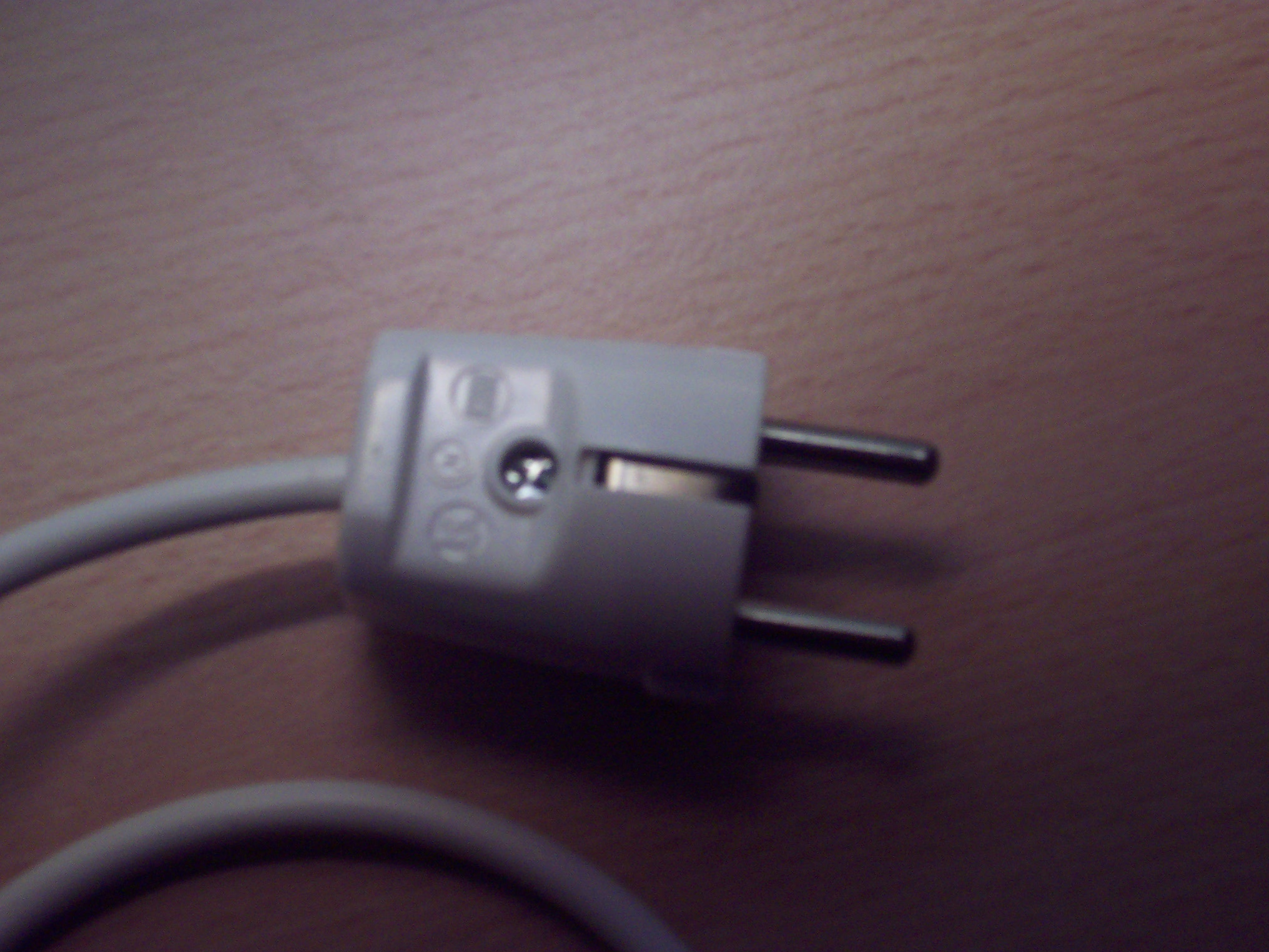 A European plug (Schuko)